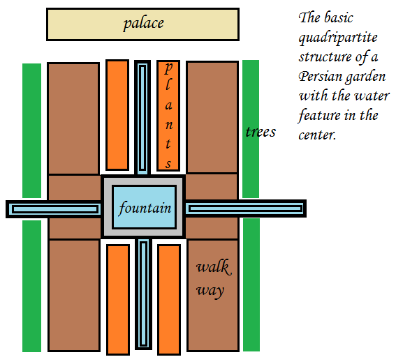 This is a schematic drawing of a traditional Persian style garden. Note the water structure most notably a pond or a fountain, almost always connected via four perpendicular connections or waterways named in Old Persian "jubs" or basically aqueducts. The structure is almost always pivoted at the long axis of this "cross" or quadripartite format so that the magnificent palace or the dwelling is looking upon the long axis of the waterway and the foundation. The walkways are often incorporated close and parallel to the long arm of the aqueduct, with trees ornating the sides and beautiful herbs, plants or domestic animals filling the inside space. Traditionally, when the property was not an issue to acquire you find these gardens surrounded by the wild space, utilized as a place for the nob and the nobility to hunt wild exotic creatures, if not go out in wild adventures. .